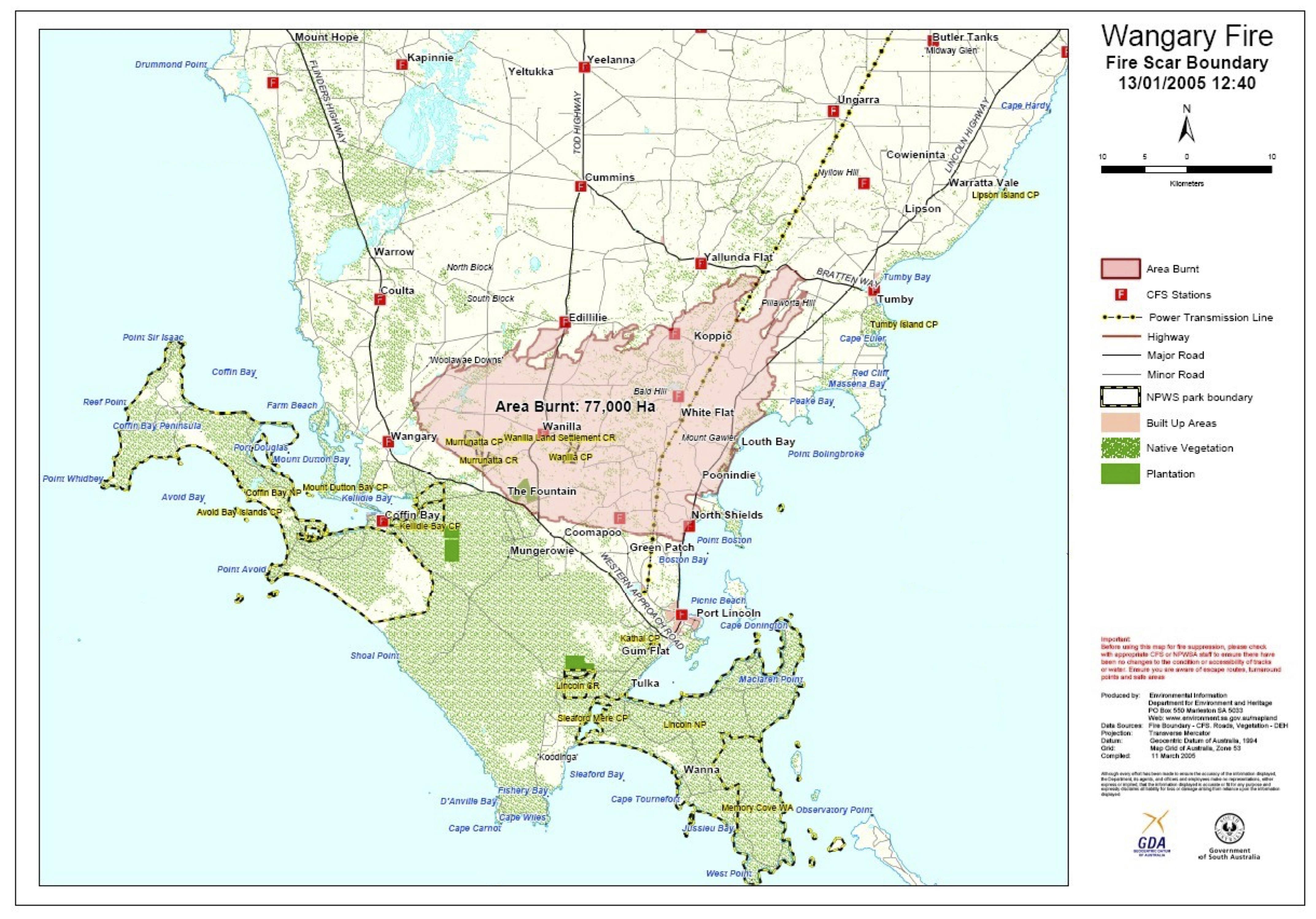 Map of southern (lower) Eyre Peninsula, South Australia, showing the boundary of the Wangary Bushfire of January 2005, as shown in the coronial inquest into the fire.